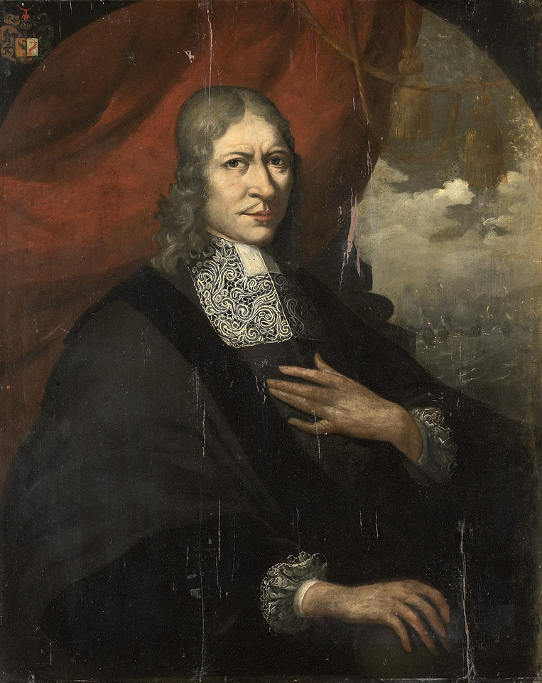 Portrait of Rijckloff van Goens, Governor-General of the Dutch East Indies from 1678 to 1681. Part of the Governors-general series.